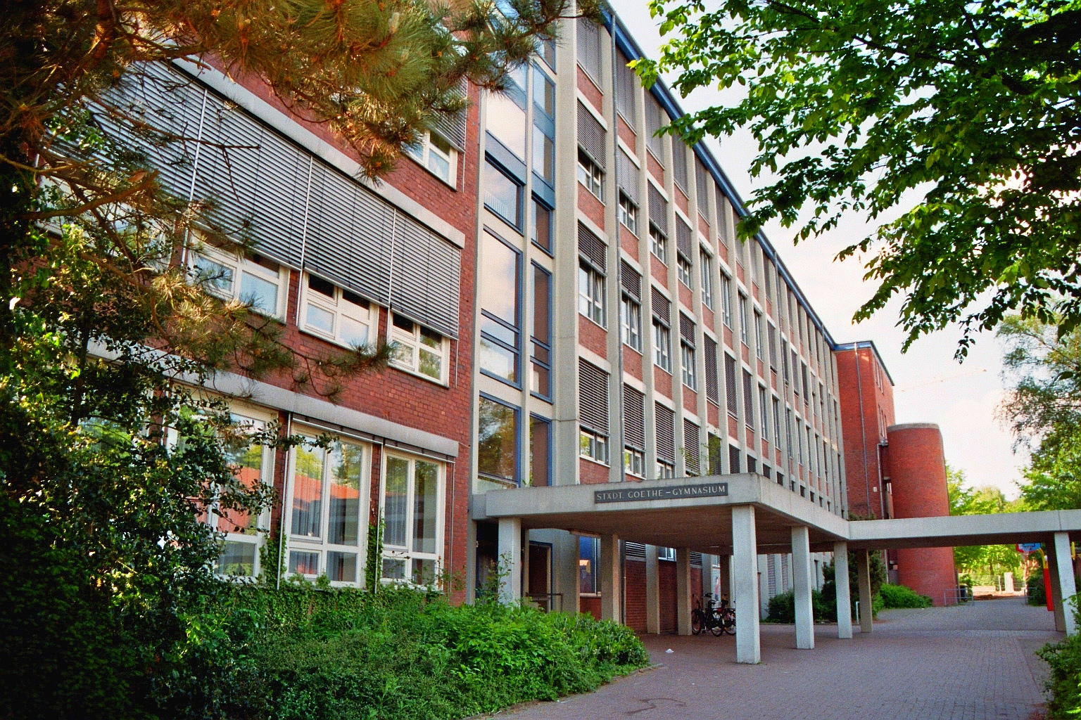 Städtisches Goethe-Gymnasium in Ibbenbüren, Kreis Steinfurt, North Rhine-Westphalia, Germany.